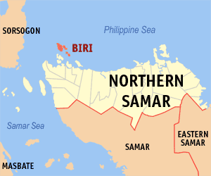 Map of Northern Samar showing the location of Biri